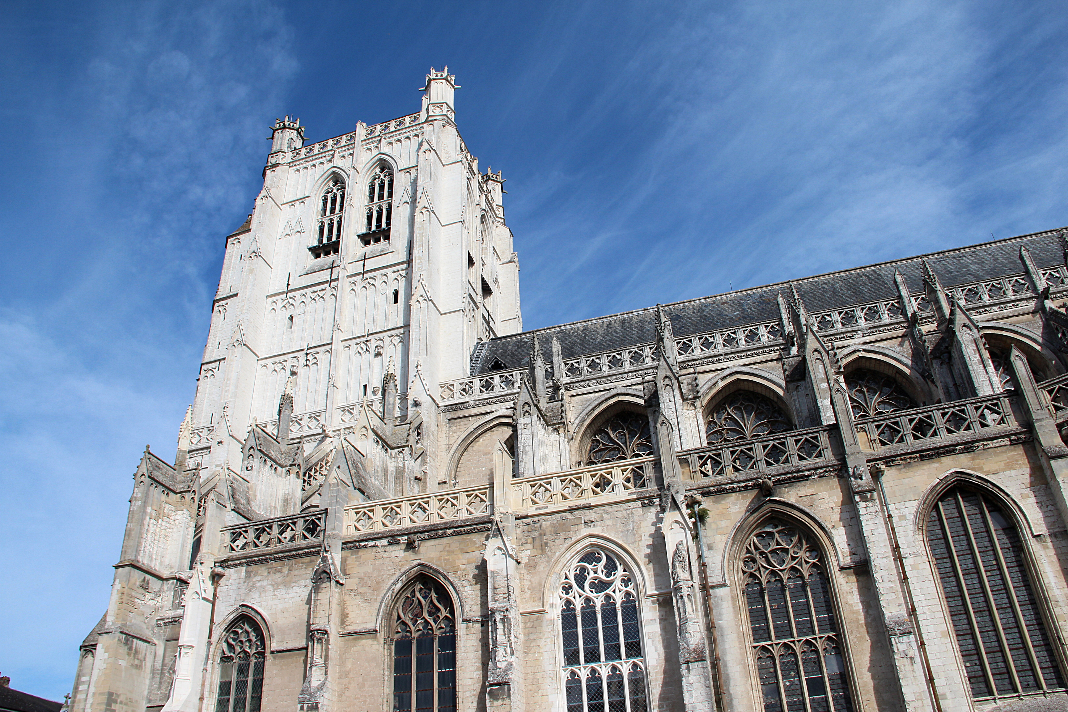 Saint-Omer (Pas-de-Calais - France), western tower (1473-1521) and nave (1375-1473) of the Notre-Dame de Saint-Omer Cathedral.